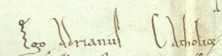 As seen on the Chartularium Sangallense 03 (1004-1277) Nr. 915, S. 35-37 charter